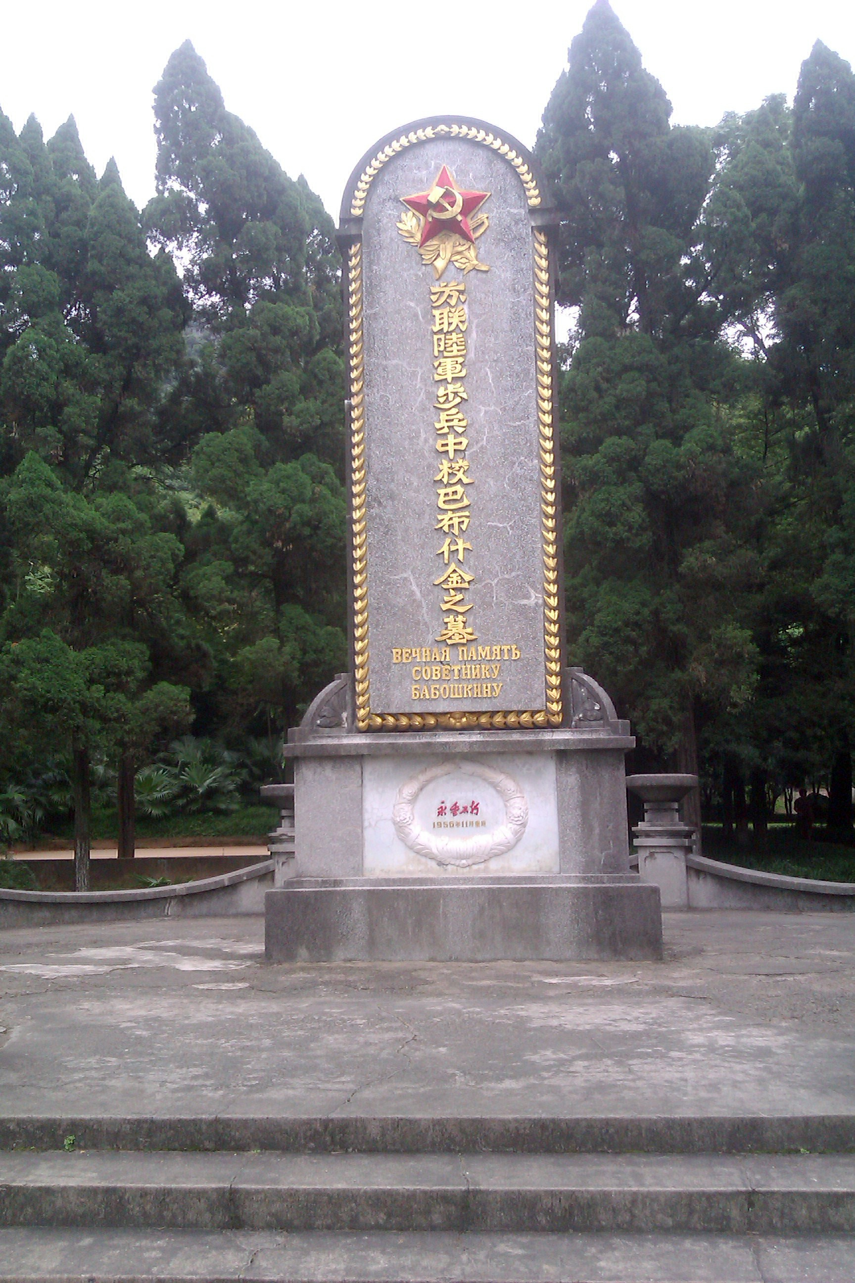 Tomb of Babyshkin, Guilin